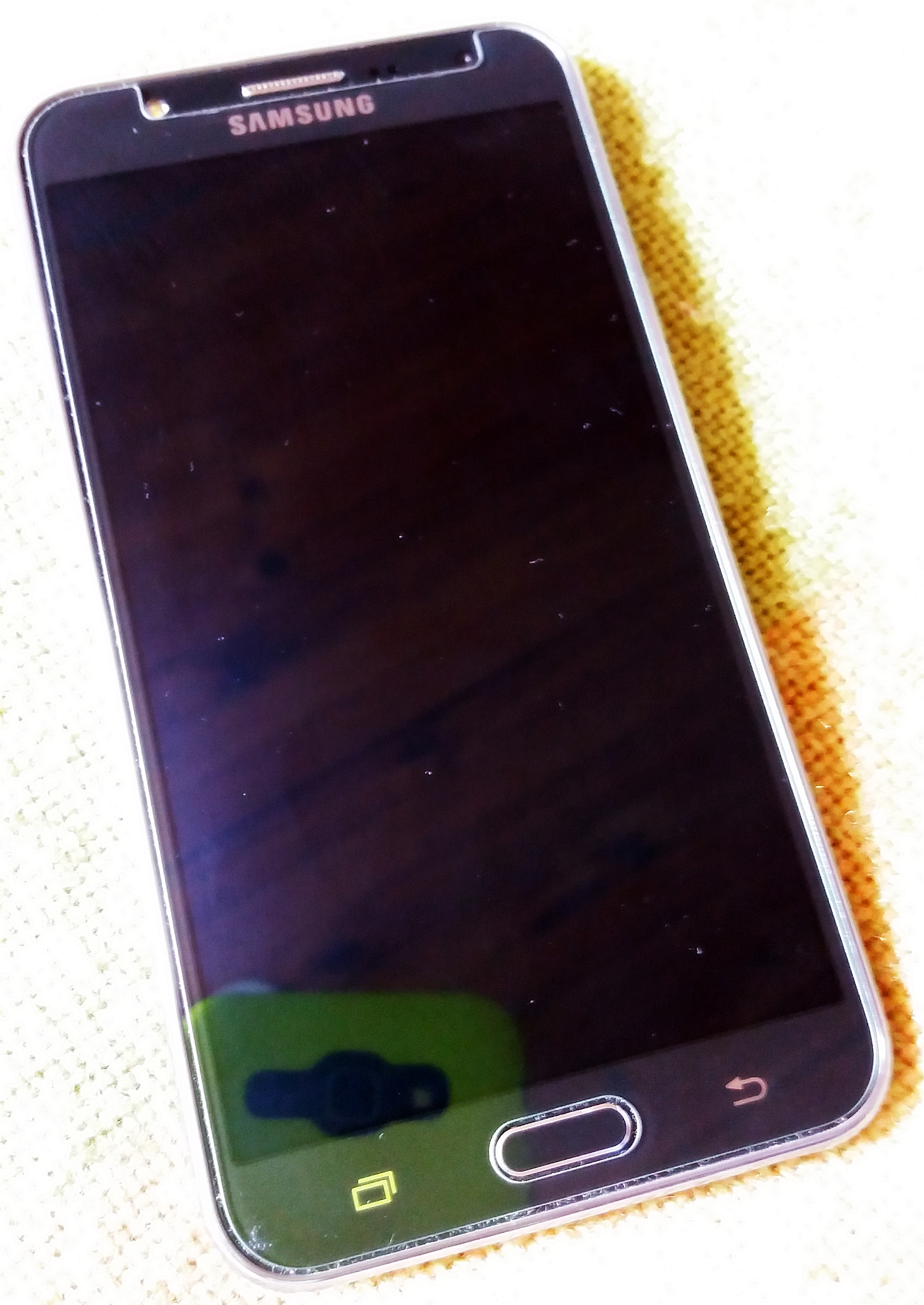 Samsung Galaxy J5 SM-J500M/DS Black